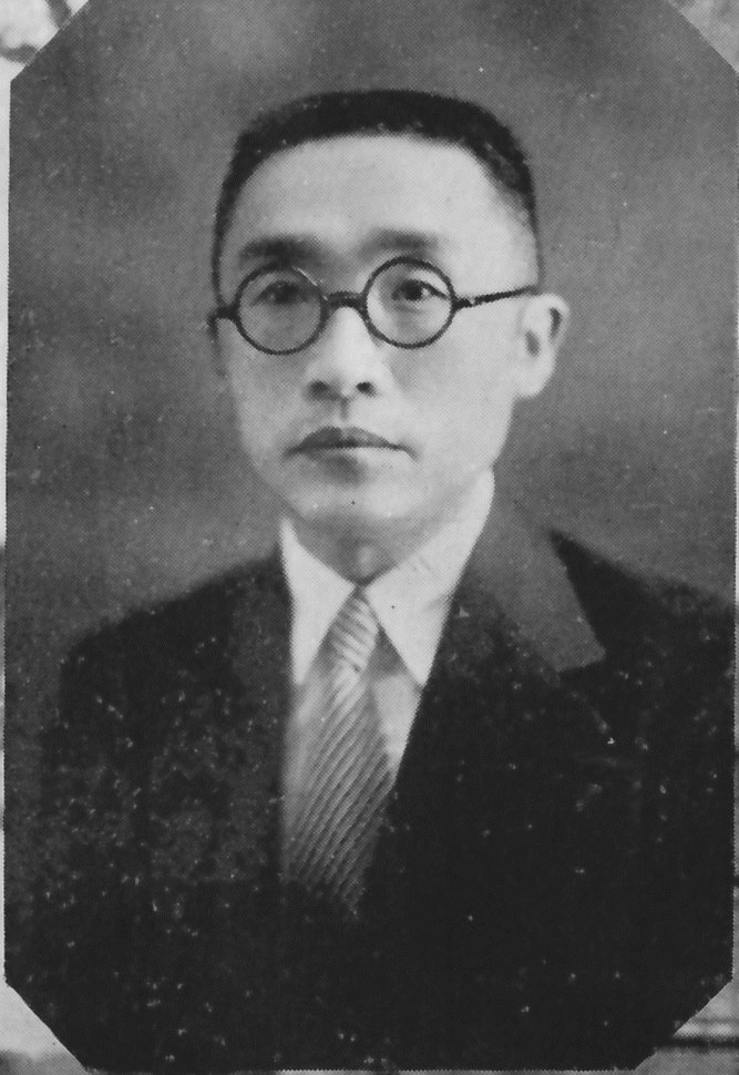 Chi Zongmo (Ch'ih Tzung-mo) (1890-1945?)